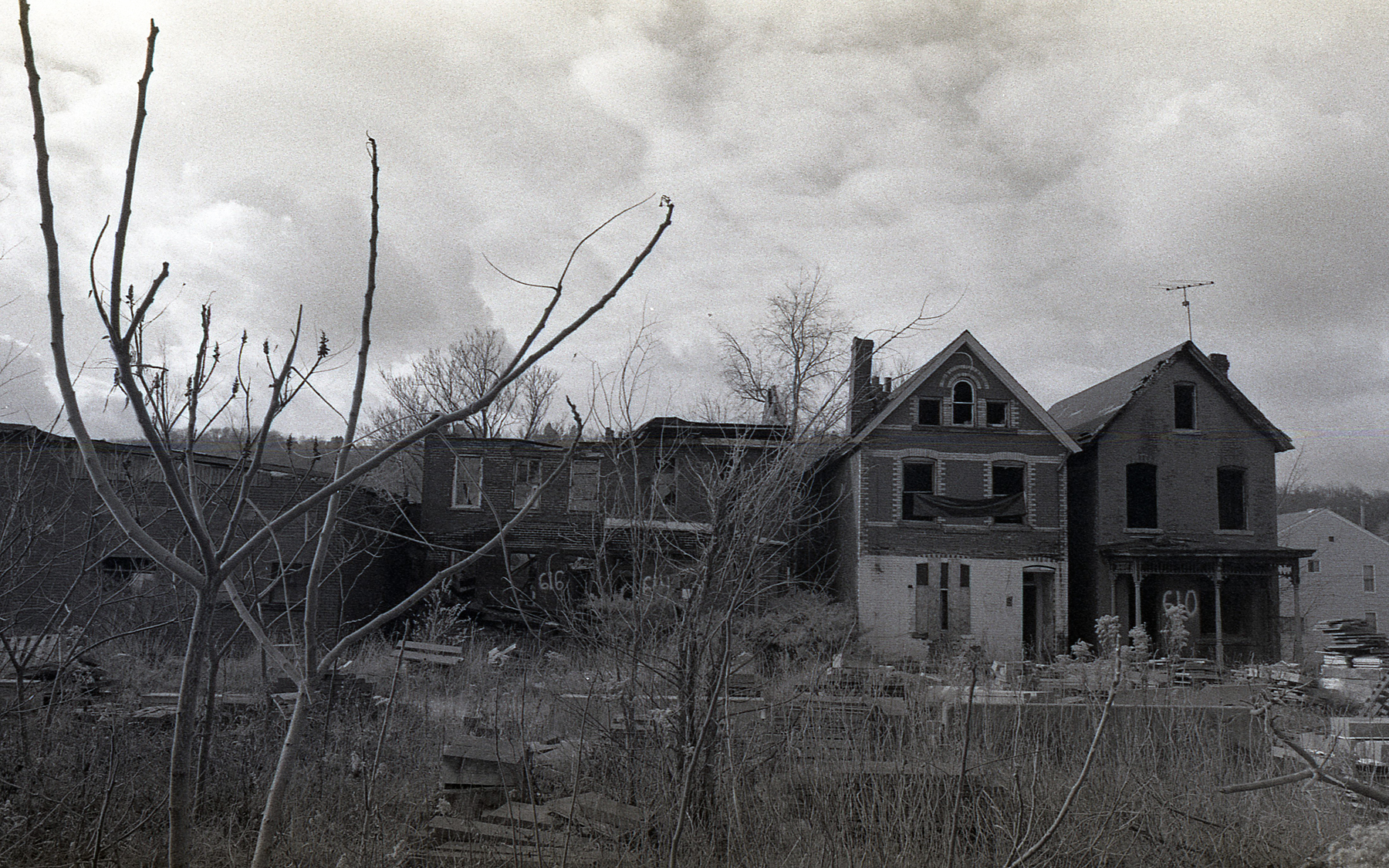 Ben an I took photos in Braddock, Pennsylvania this Thanksgiving. Over the past 60 years, Braddock shrunk from 18,000 residents to just 2,912. Today, despite the work of an ambitious mayor, there is little local economy, few jobs, and in the lower part of town, more abandoned homes than occupied ones. -Katie